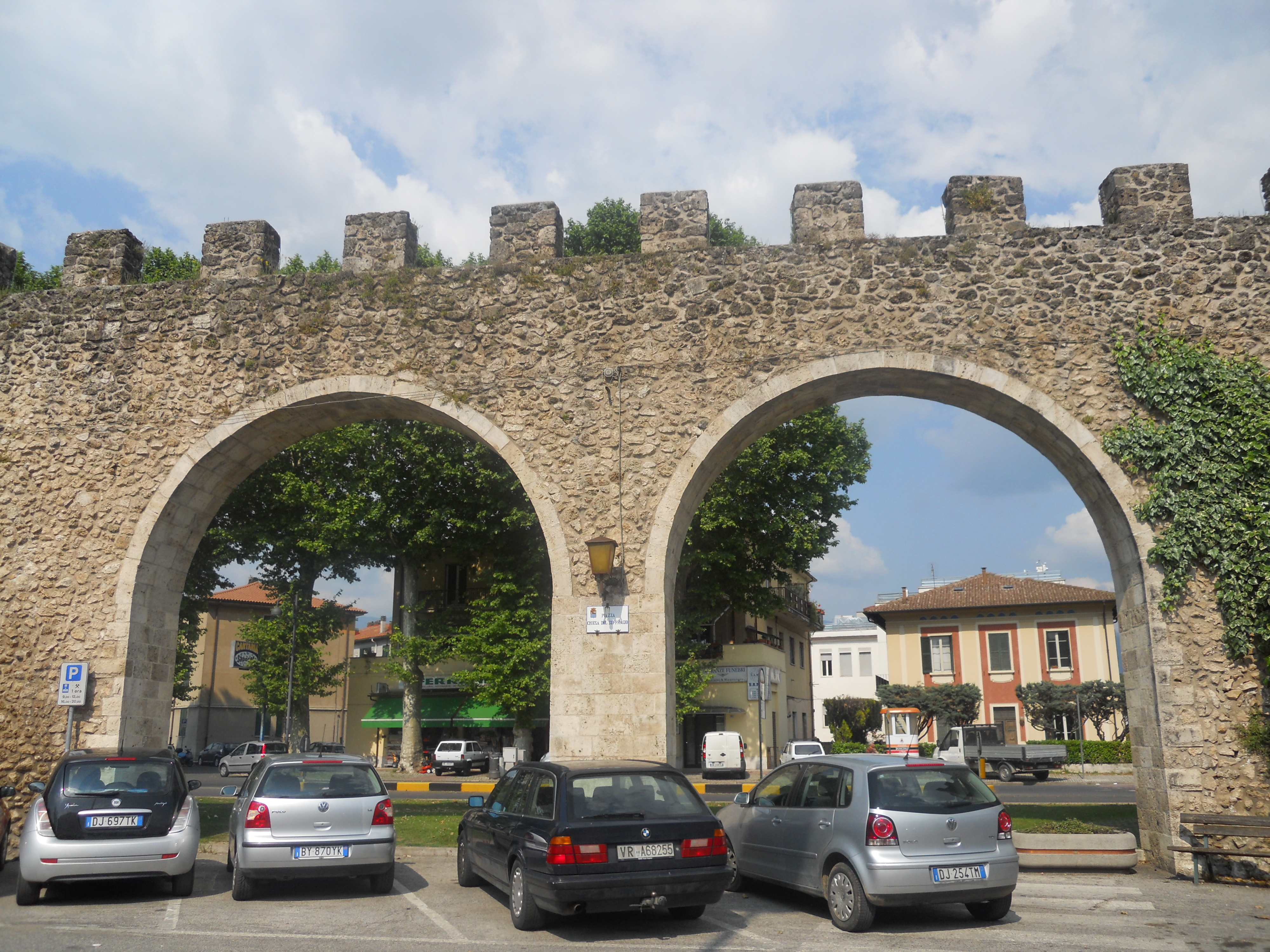 Walls surrounding Porta d'Arci - interior side - Rieti, Italy